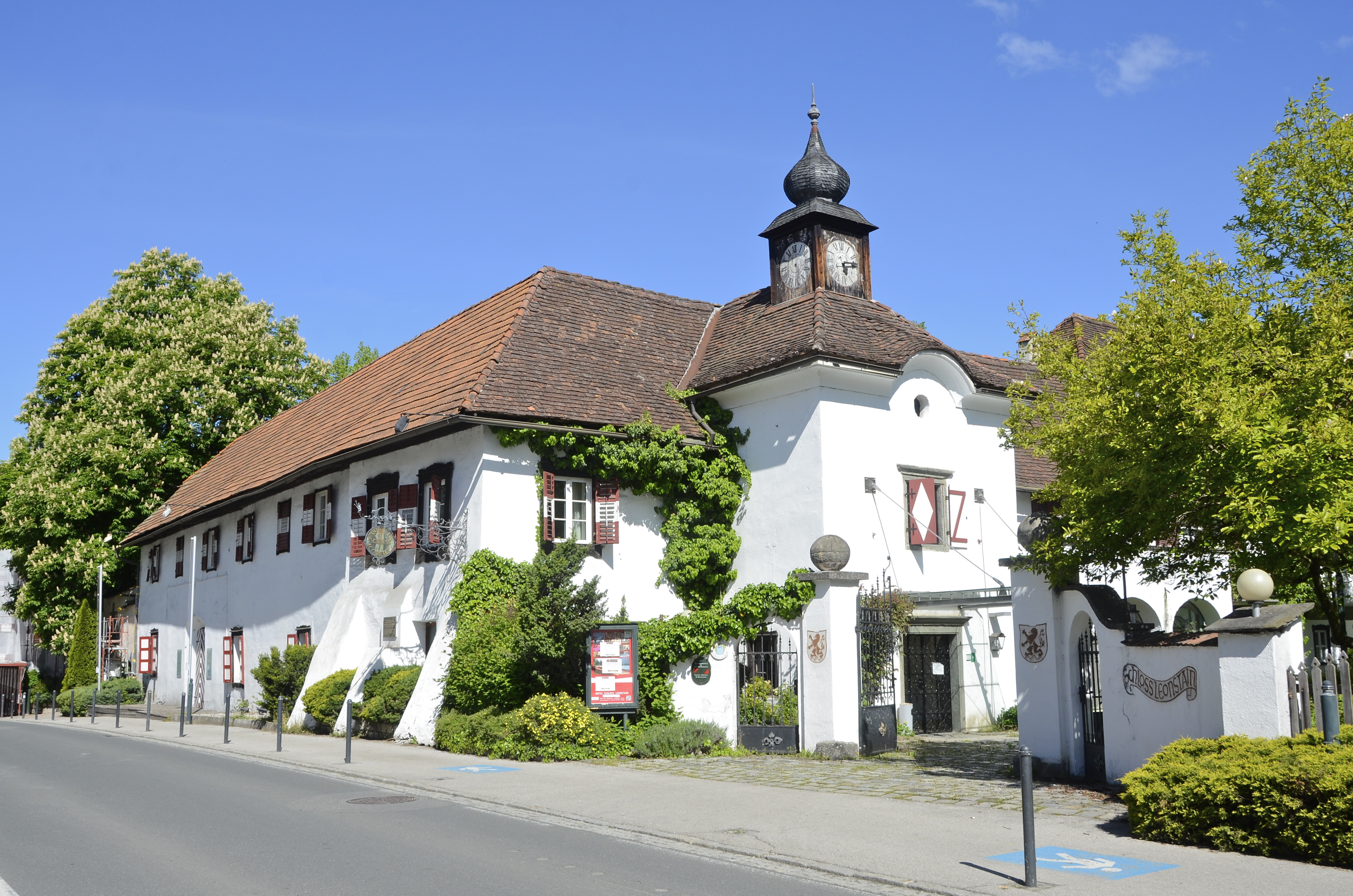 New castle Leonstain (nowadays it houses a hotel), municipality Poertschach on the Lake Woerth, district Klagenfurt Land, Carinthia, Austria, EU